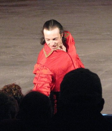 Philippe Candeloro charming the crowd